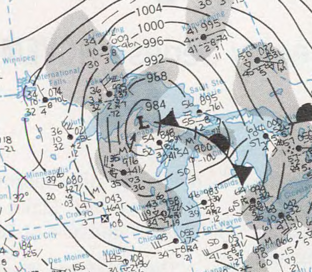 Surface weather analysis of November 1975 Panhandle Hook on 10 November 1975.